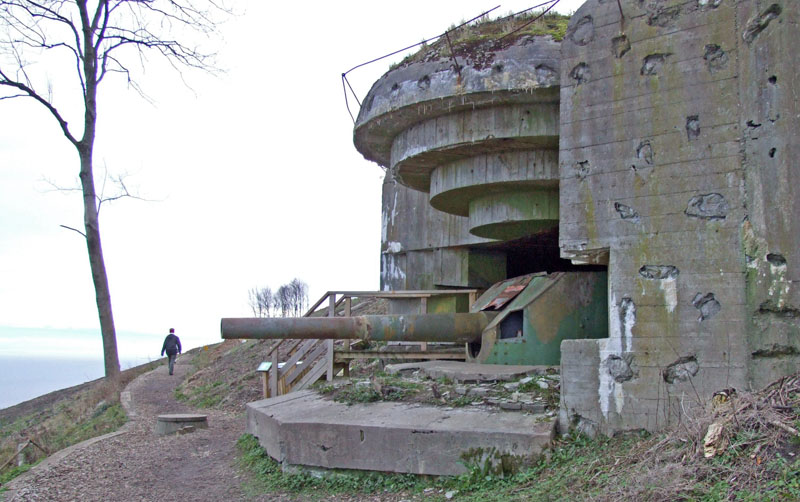 15 cm cannon salvaged in 1944 from the Danish light cruiser Niels Juel and installed as armament on the German built Fort Bangsbo in Denmark.